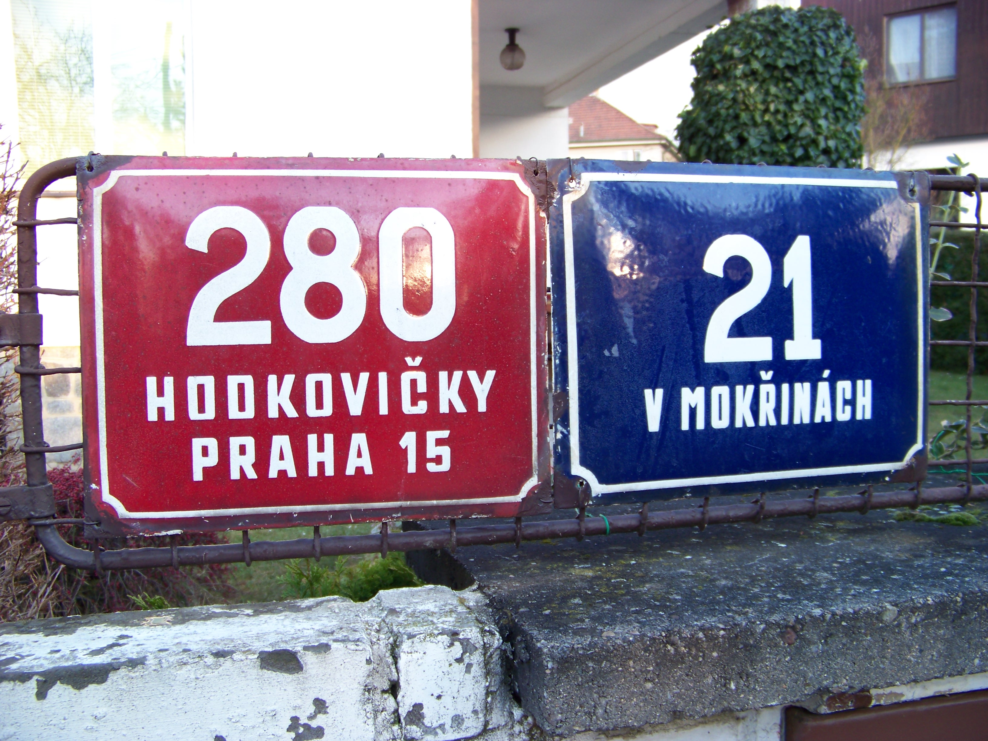 Prague-Hodkovičky, the Czech Republic. V mokřinách street, house numbers 280/21.